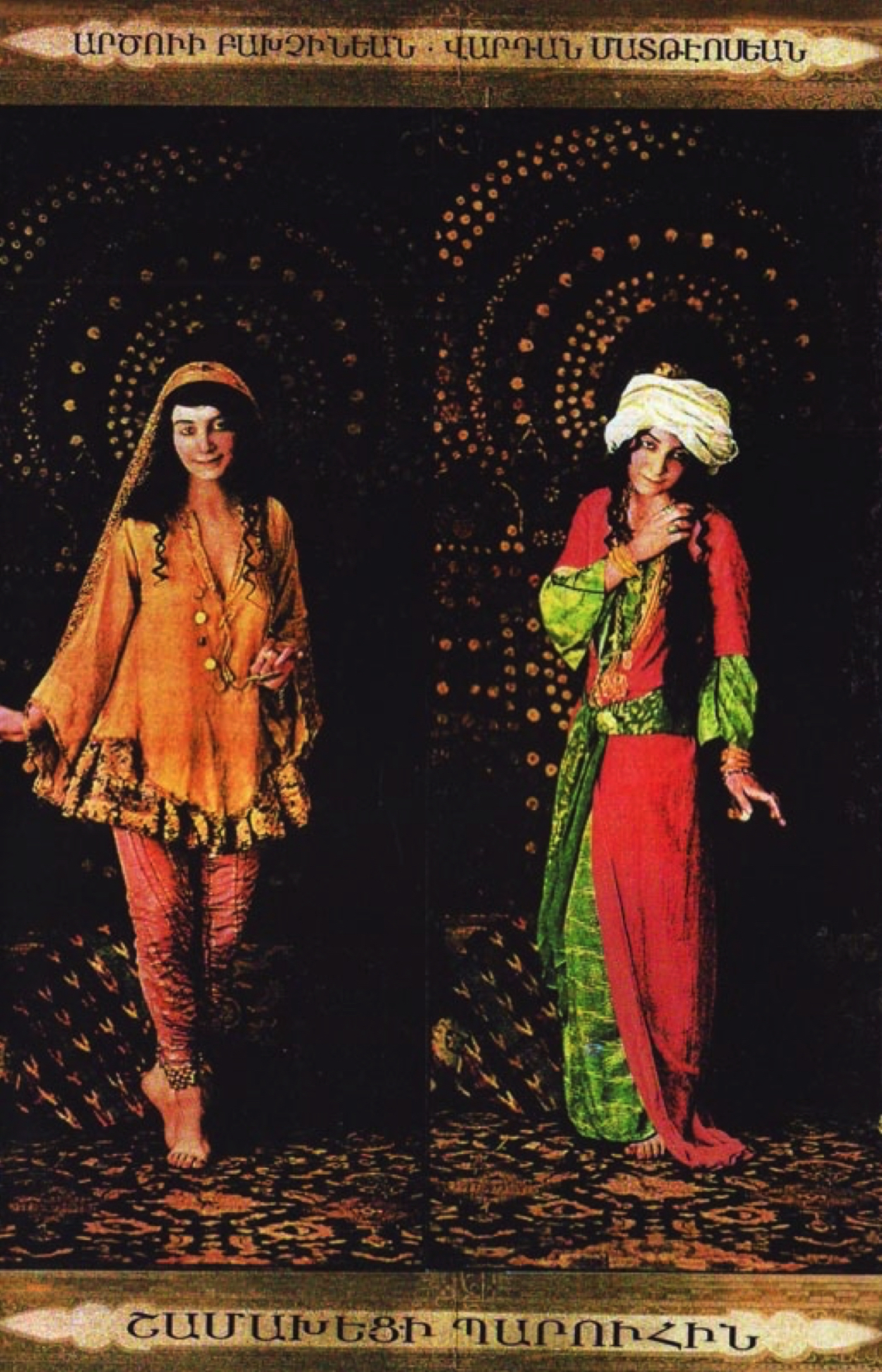 An Armenian-language edition of Ohanian’s The Dancer of Shamahka (1918)